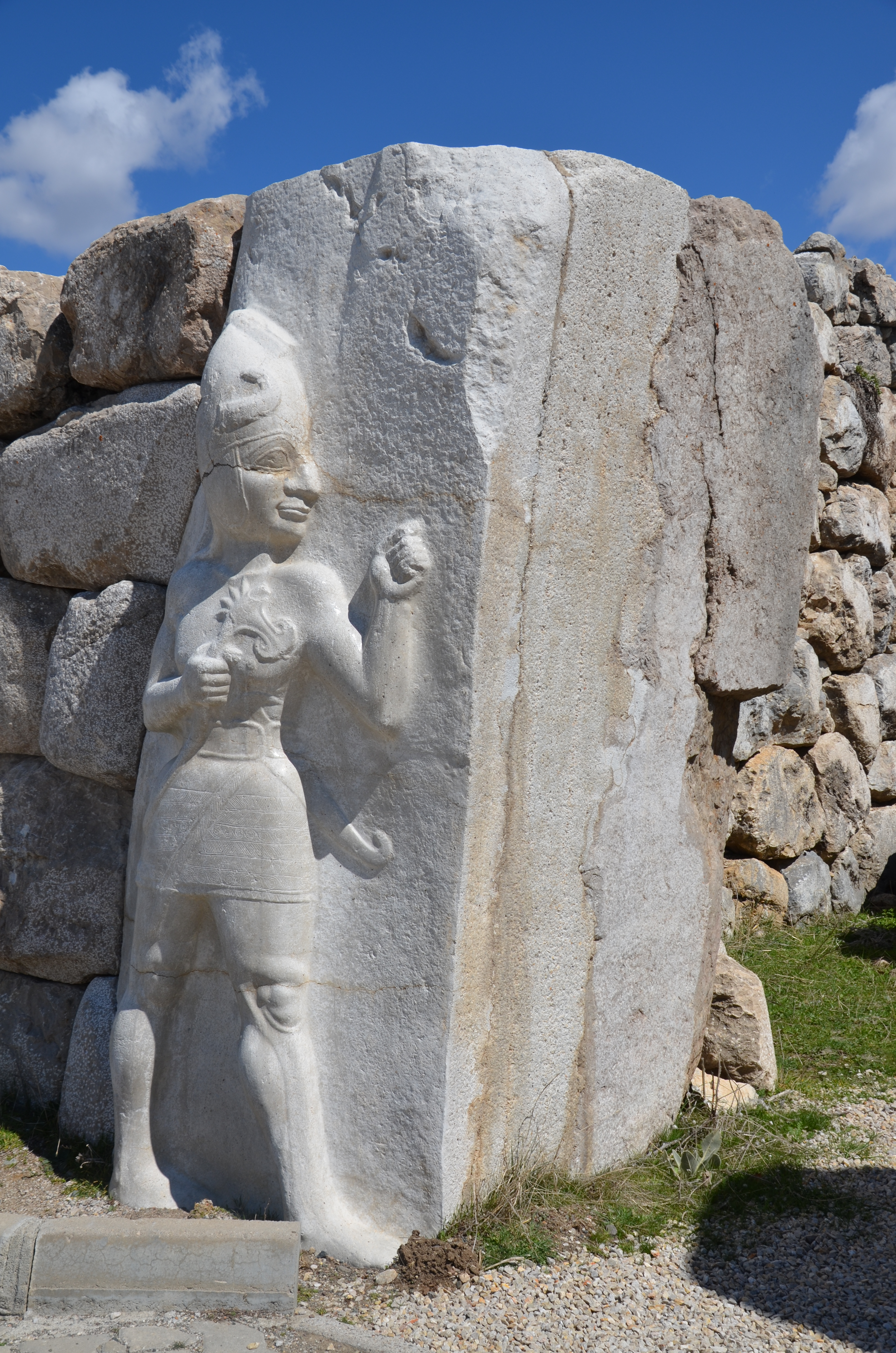 The King's Gate situated at the southeast of the city fortifications with a sculpture of a warrior in high relief measuring 2.25m in height, Hattusa, the capital of the Hittite Empire in the late Bronze Age, Boğazkale, Turkey